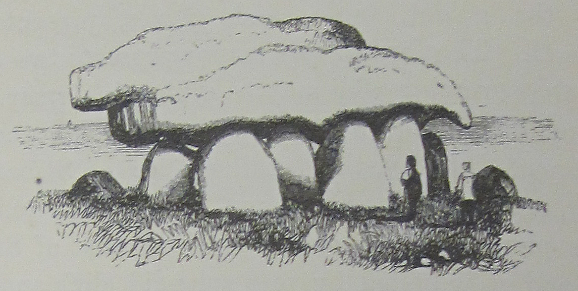 The Islets of the Channel, 1858, Walter Cooper Dendy - "Cromlech"